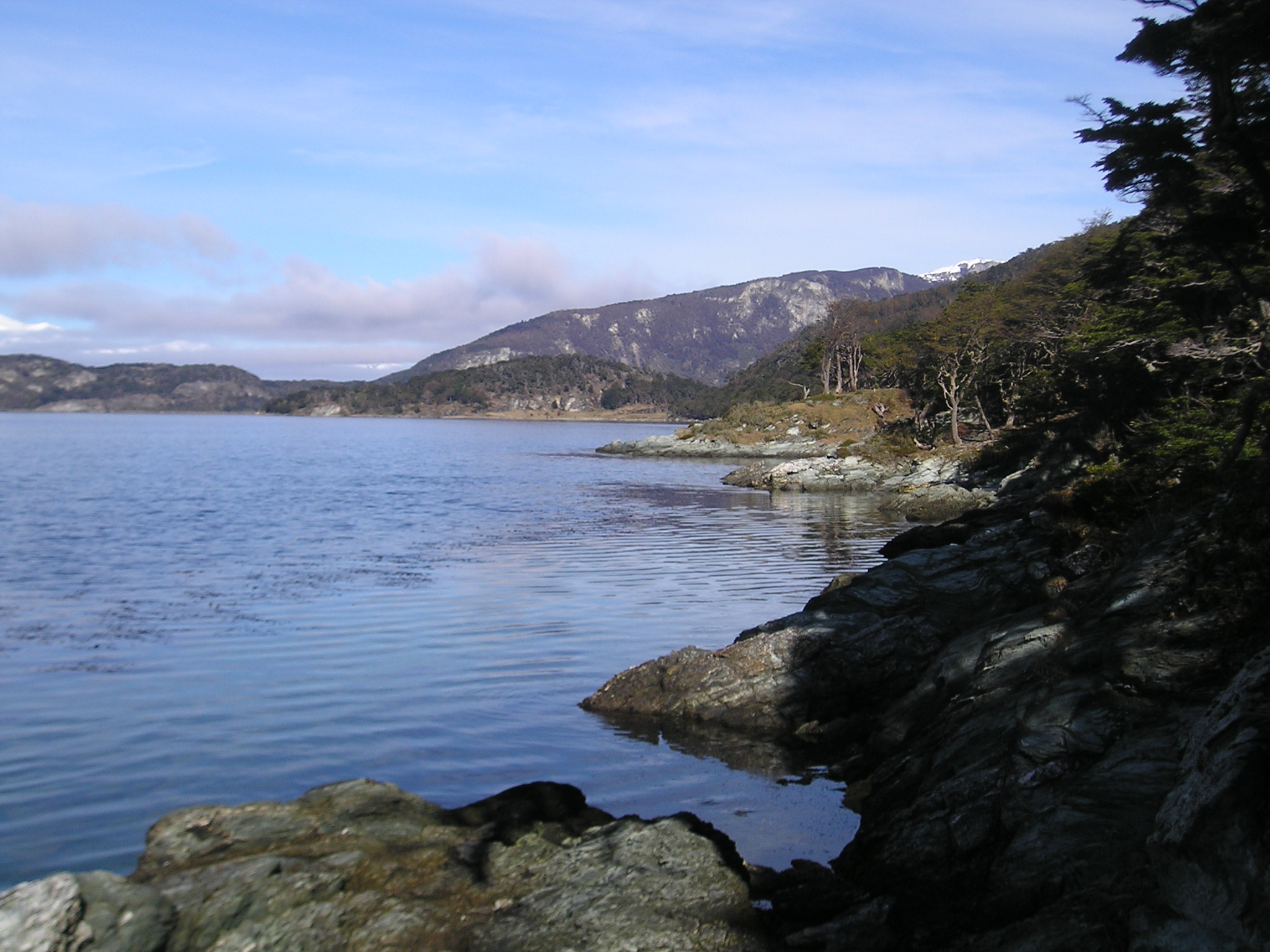 Tierra del Fuego National Park (a few km west of Ushuaia, Argentina) - Senda Costera ("coastal path") at the shore of the Beagle Channel